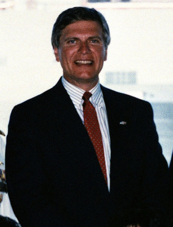 "At the christening and launch of the dock landing ship USS RUSHMORE (LSD 47): seated, left to right, Mrs. P.D. Hurst; Mrs. A.L. Bossier; Meredeth Brokaw, ship's sponsor; Kimberly Graff, flower girl; Linda Mickelson, matron of honor; and Rep. Lindy Boggs, D-LA. Standing, left to right: A.L. Bossier, CEO, Avondale Industries, Inc.; Captain J.F. King, NAVSEA: Governor G.S. Mickelson of South Dakota; Senator, Larry Pressler, R-SD; Tom Brokaw, NBC News; and Captain P.D. Hurst, SUPSHIP, New Orleans"